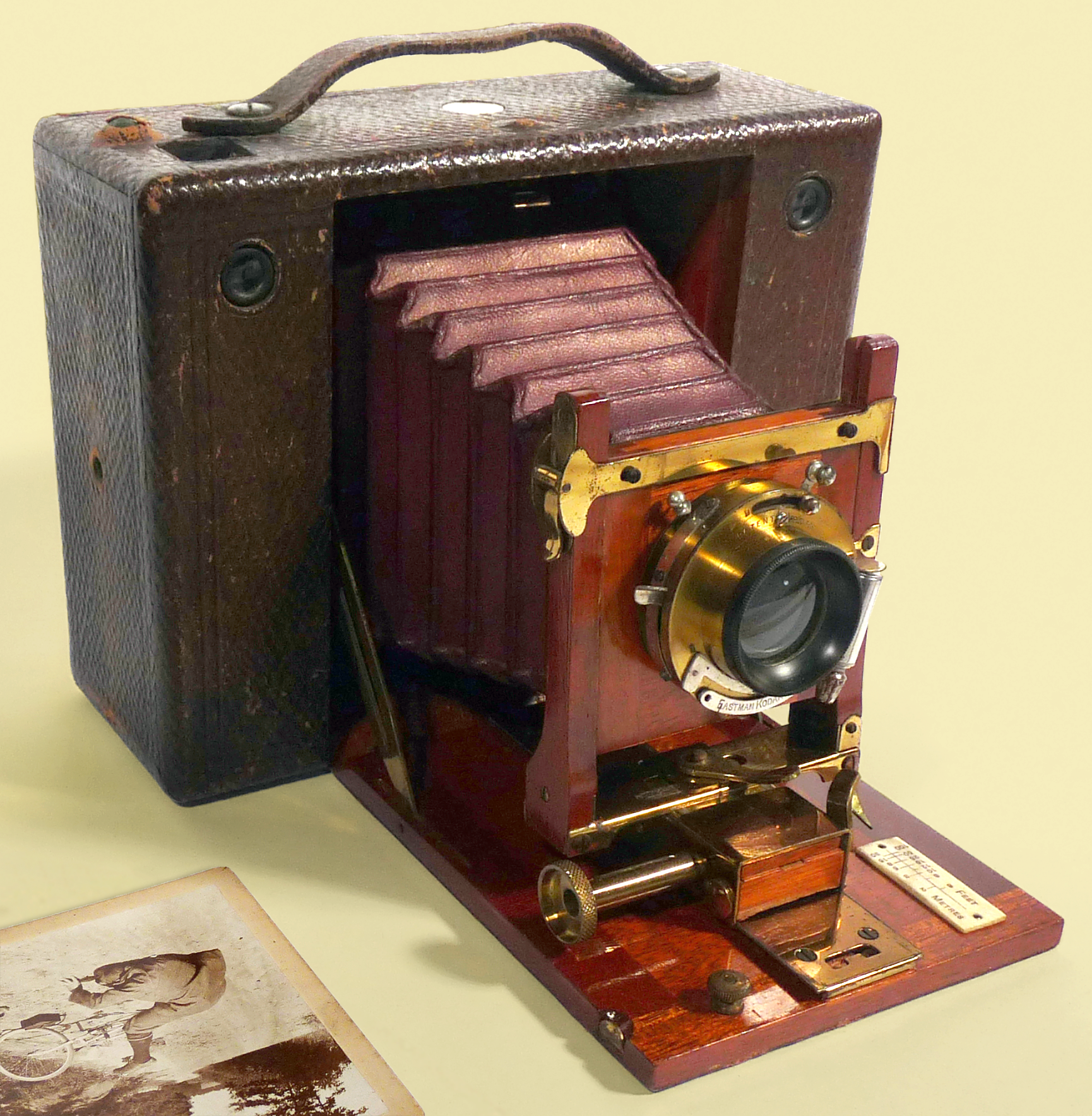 Eastman Kodak Camera Model 2, 1890 (approximately). Type: large format, 4x5 inchs roll film condition.